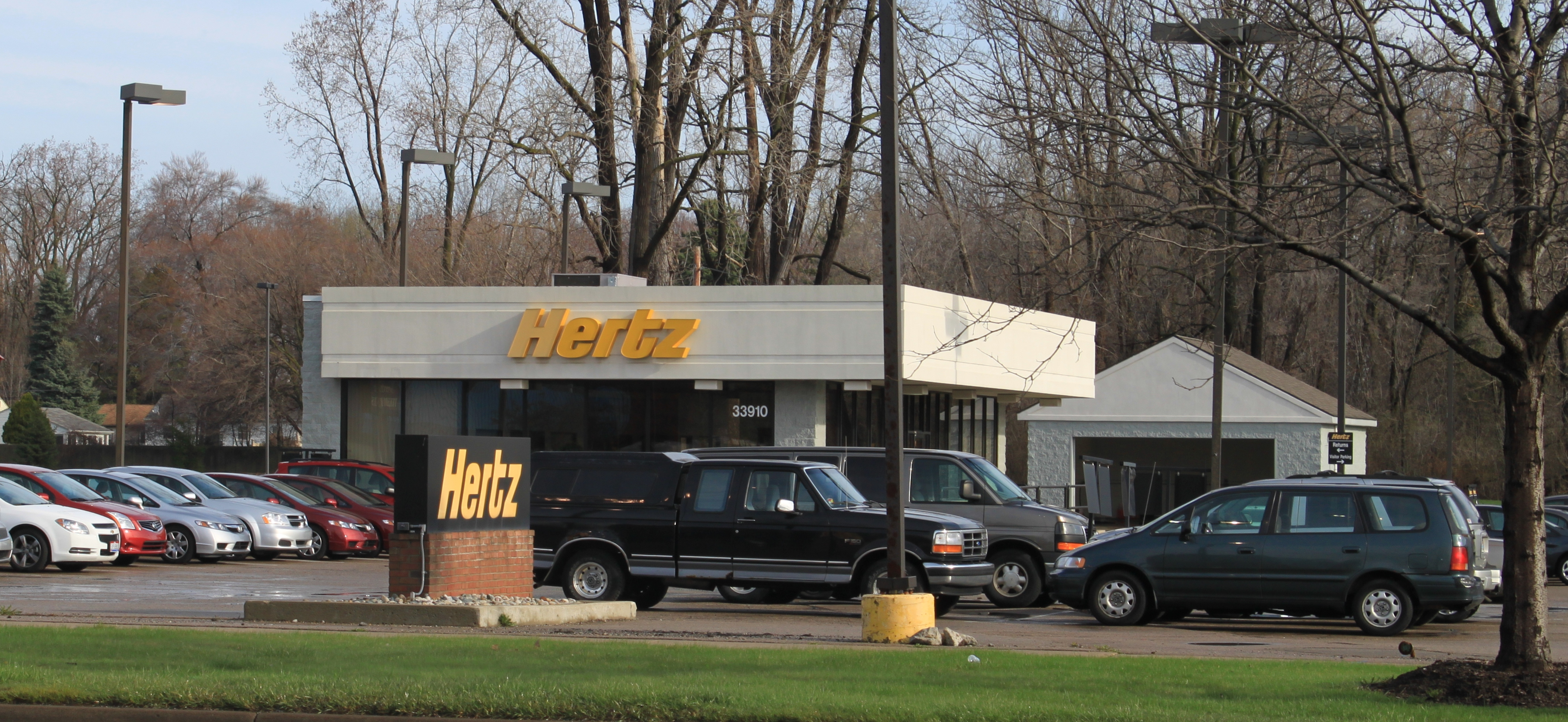 Hertz car rental office, 33910 Plymouth Road, Livonia, Michigan